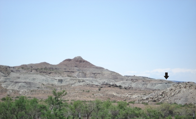 Fruita Paleontological Resource Area managed by the Bureau of Land Management south of Fruita, Colorado. An area that has produced numerous small fossils.